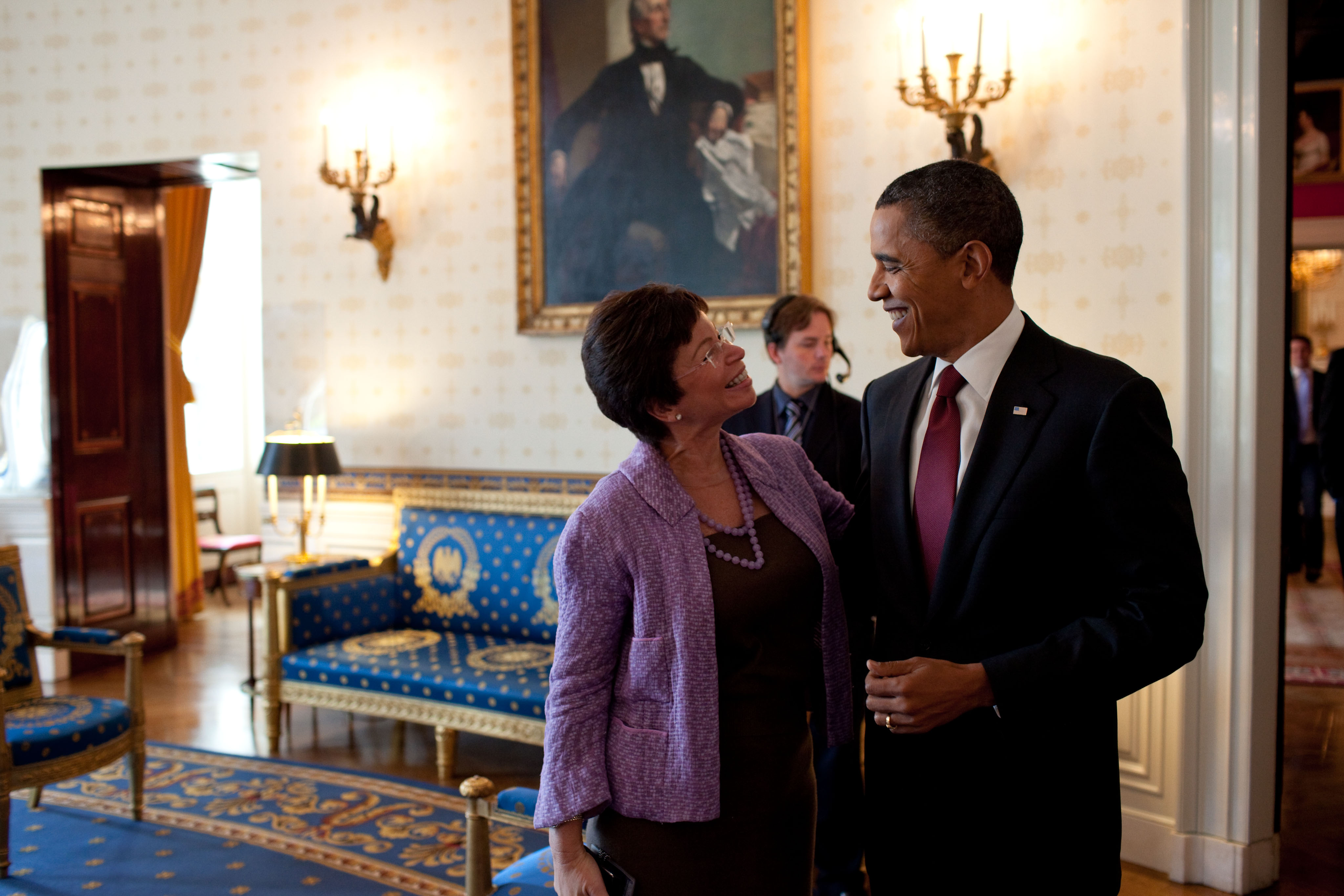 President Barack Obama chats with Senior Advisor Valerie Jarrett in the Blue Room of the White House before holding a press conference, Nov. 3, 2010. (Official White House Photo by Pete Souza)